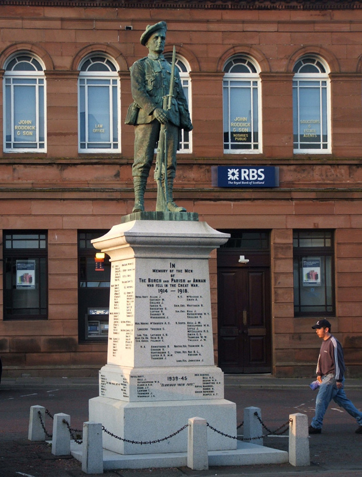 War Memorial, Annan High Street, October 2006